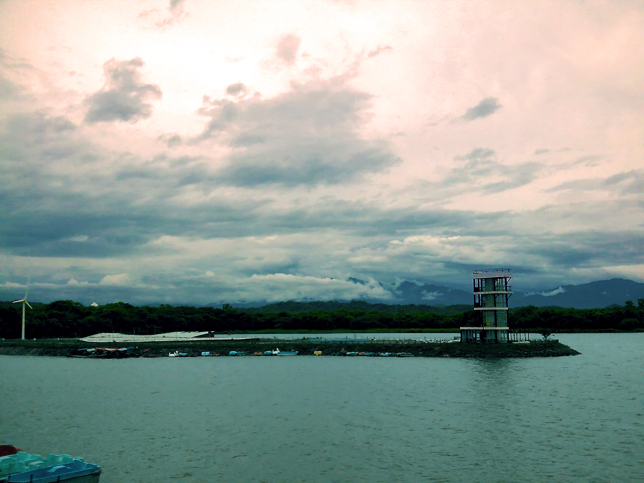 The Sukhna Lake, Chandigarh, India.